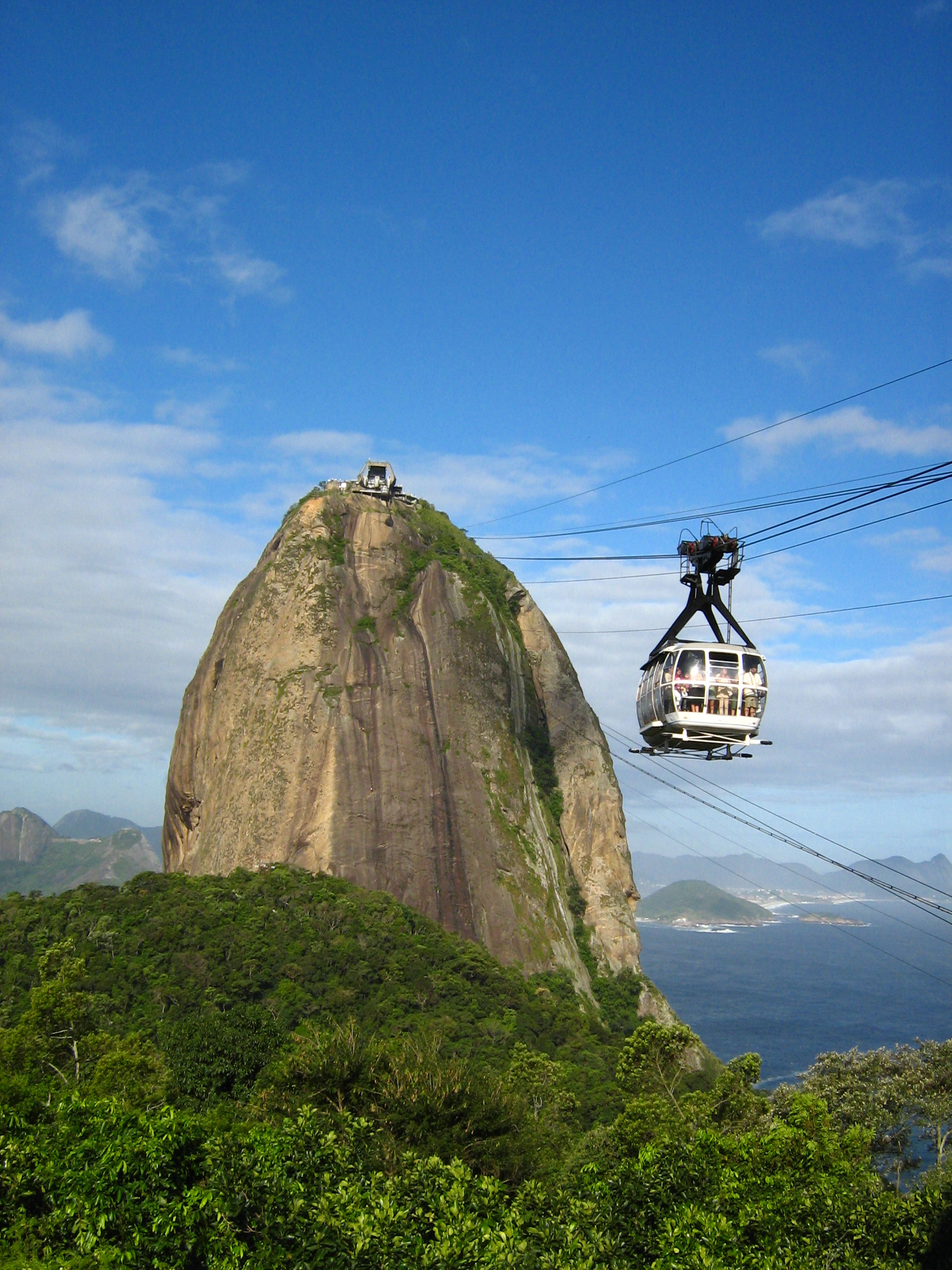 Cablecar going to the Sugarloaf Mountain, Rio de Janeiro, Brazil.